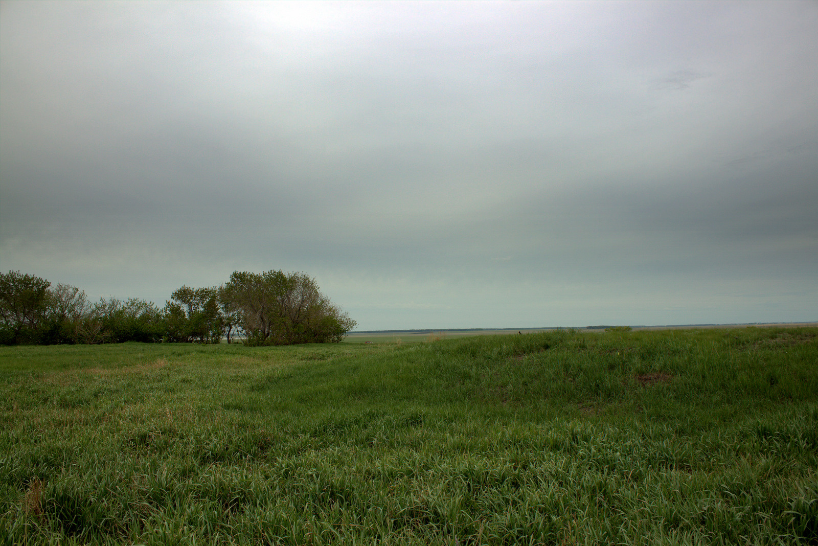 Losev redut